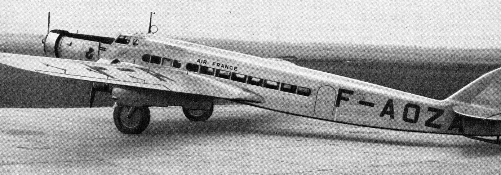 Dewoitine D.338 photo from Le Pontentiel Aérien Mondial 1936